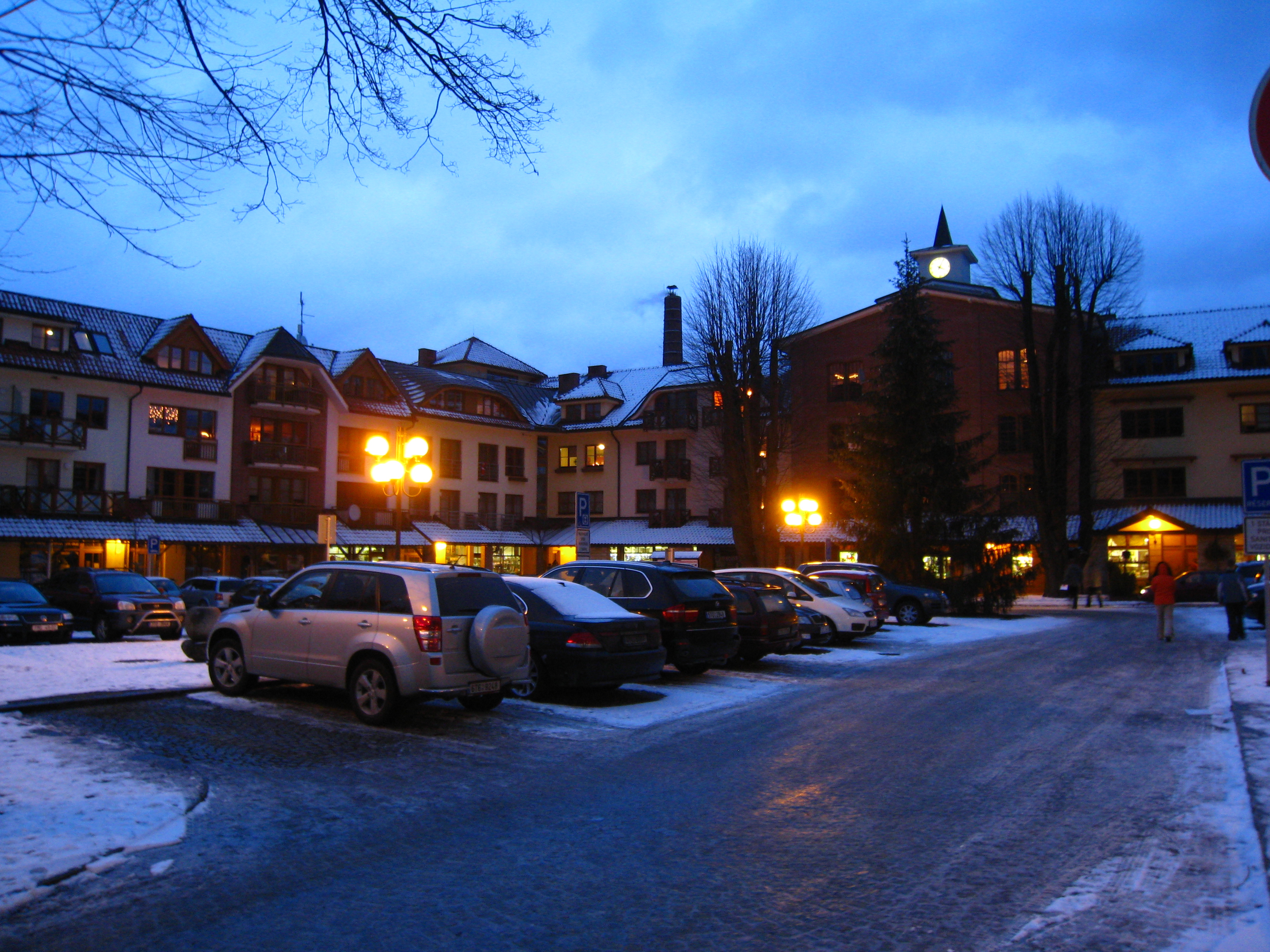 Čeladná quasi market-place